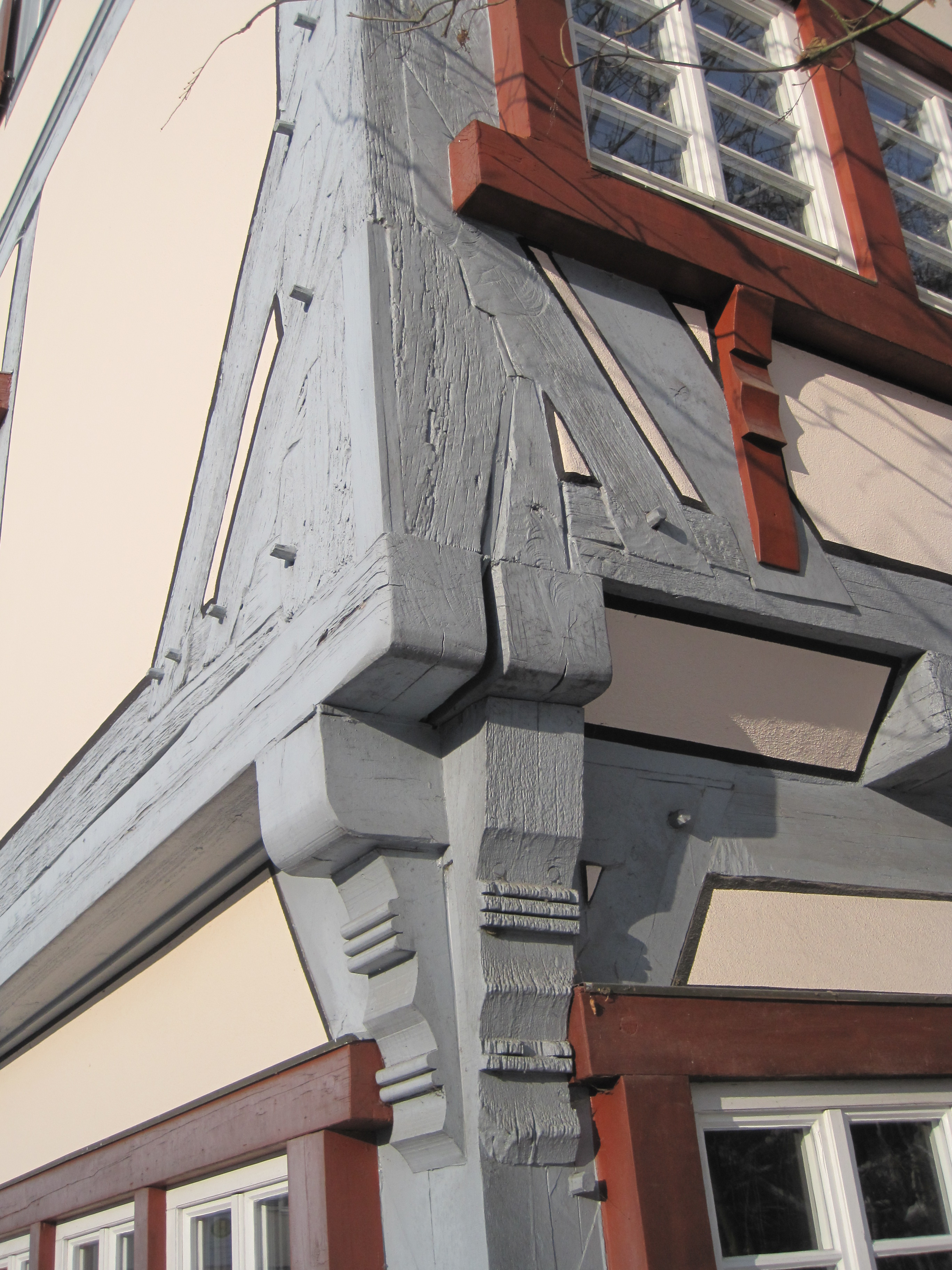 Photo of Gothic house in Schwaebisch Hall, Germany